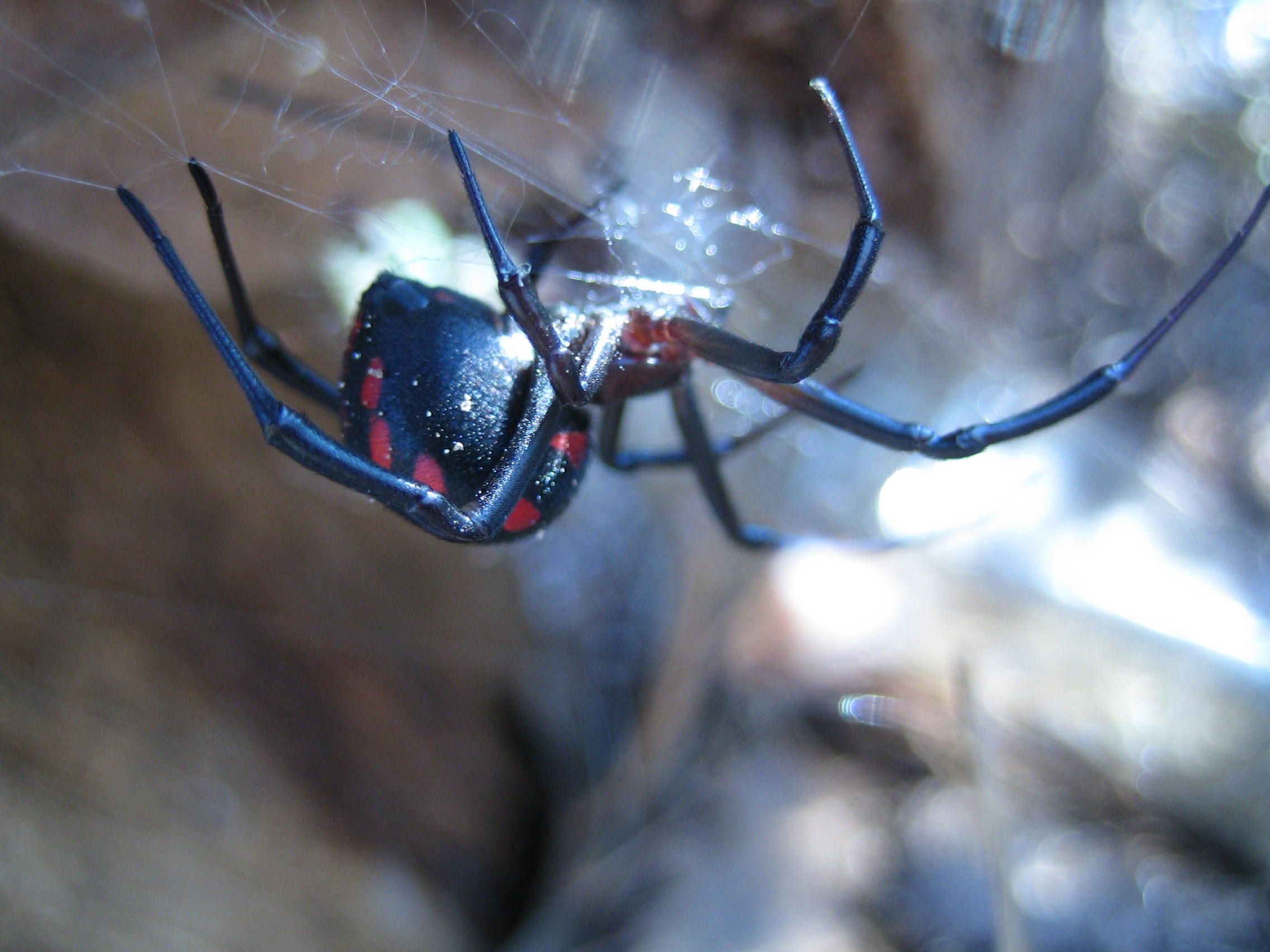 european black widow spider, photo taken near Rabac, Croatia